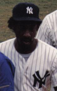 Rowland Office in New York Yankees Spring Training, 1983. Philatio (talk) 03:37, 5 May 2008 (UTC) 03:37, 5 May 2008 . . Phil5329 . . 182×290 (9 KB)